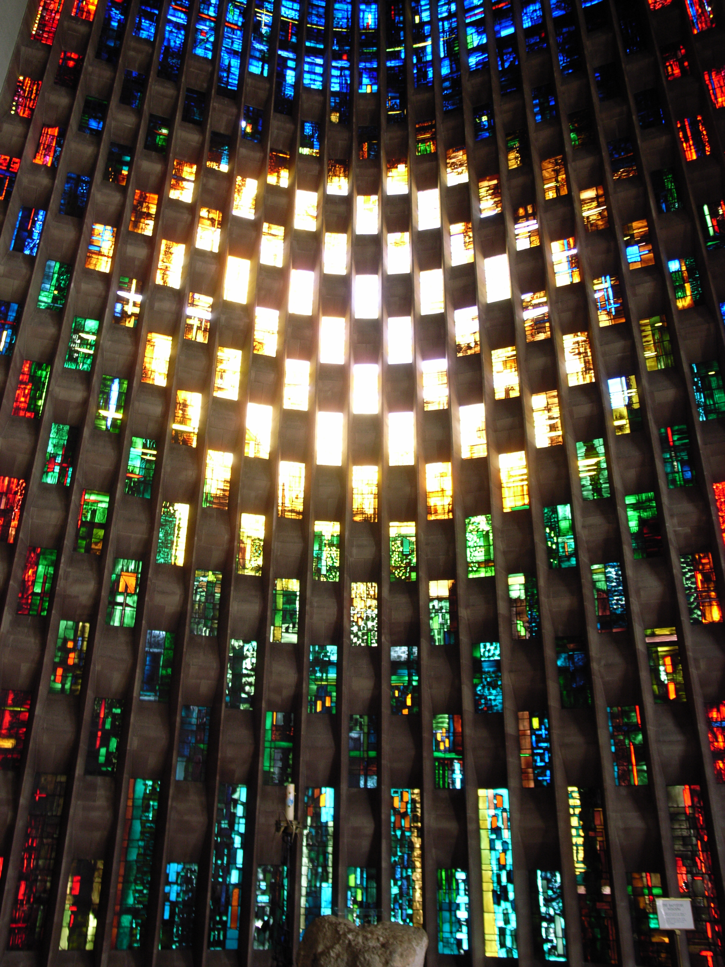 Baptistry window by John Piper, at Coventry Cathedral, Coventry, West Midlands, England.